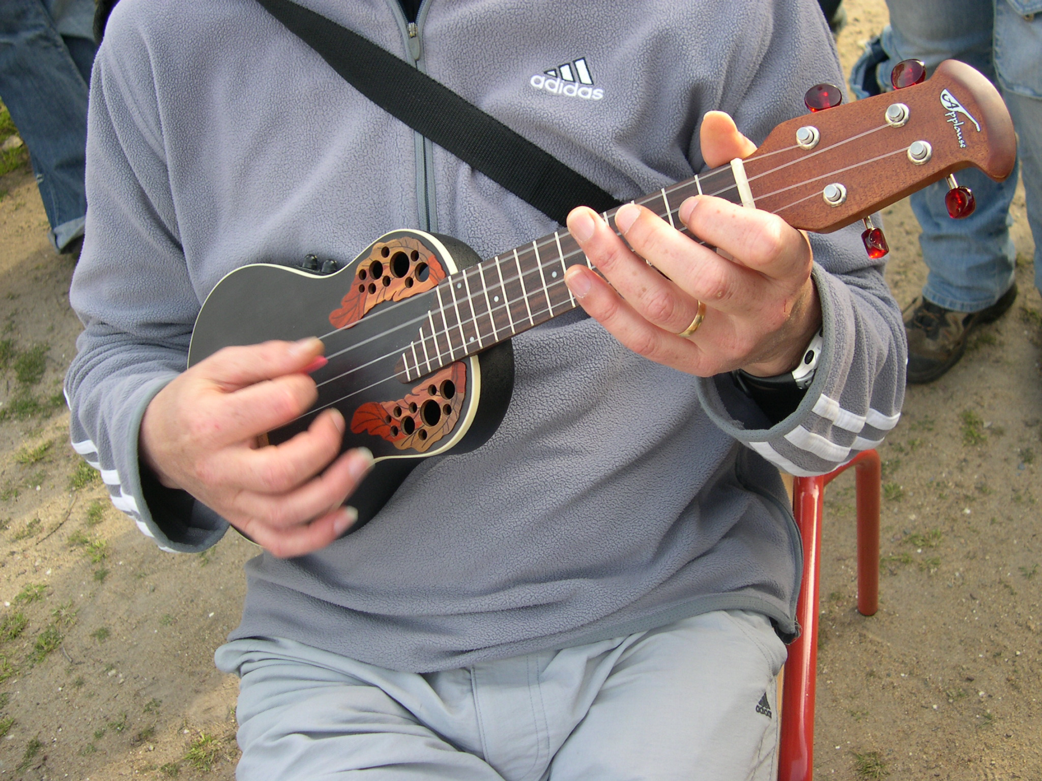 Electro-acoustic ukulele in use.